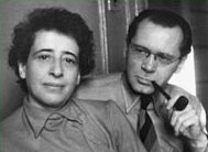 Hannah and Heinrich Blüche in New York, ca. 1950